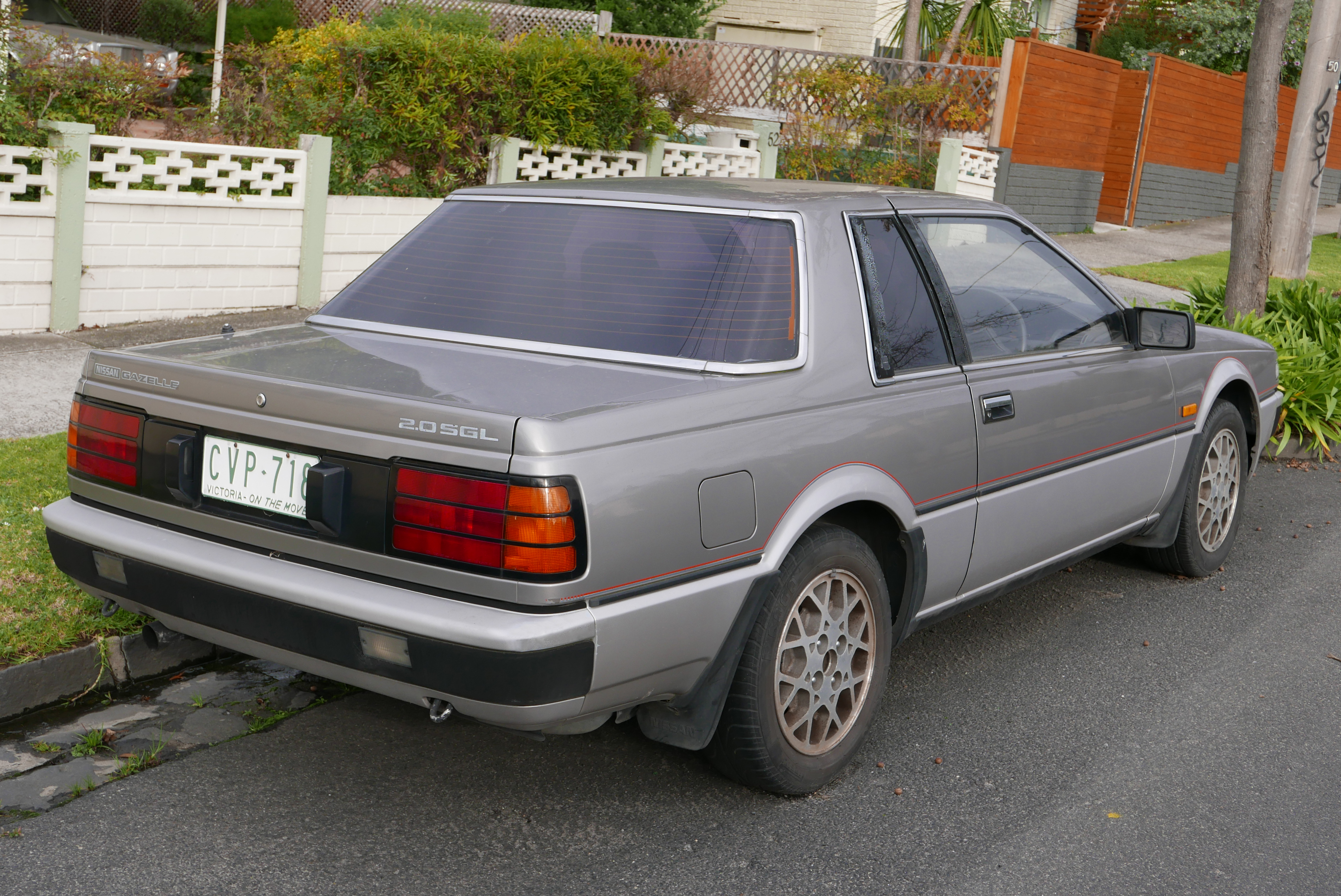 1986 Nissan Gazelle (S12) SGL coupe. Photographed in Kew, Victoria, Australia. Vehicle registration enquiry results Jurisdiction Victoria Registration CVP718 Chassis code Not available Engine code CA20252392A Compliance date Not available Year of manufacture 1986